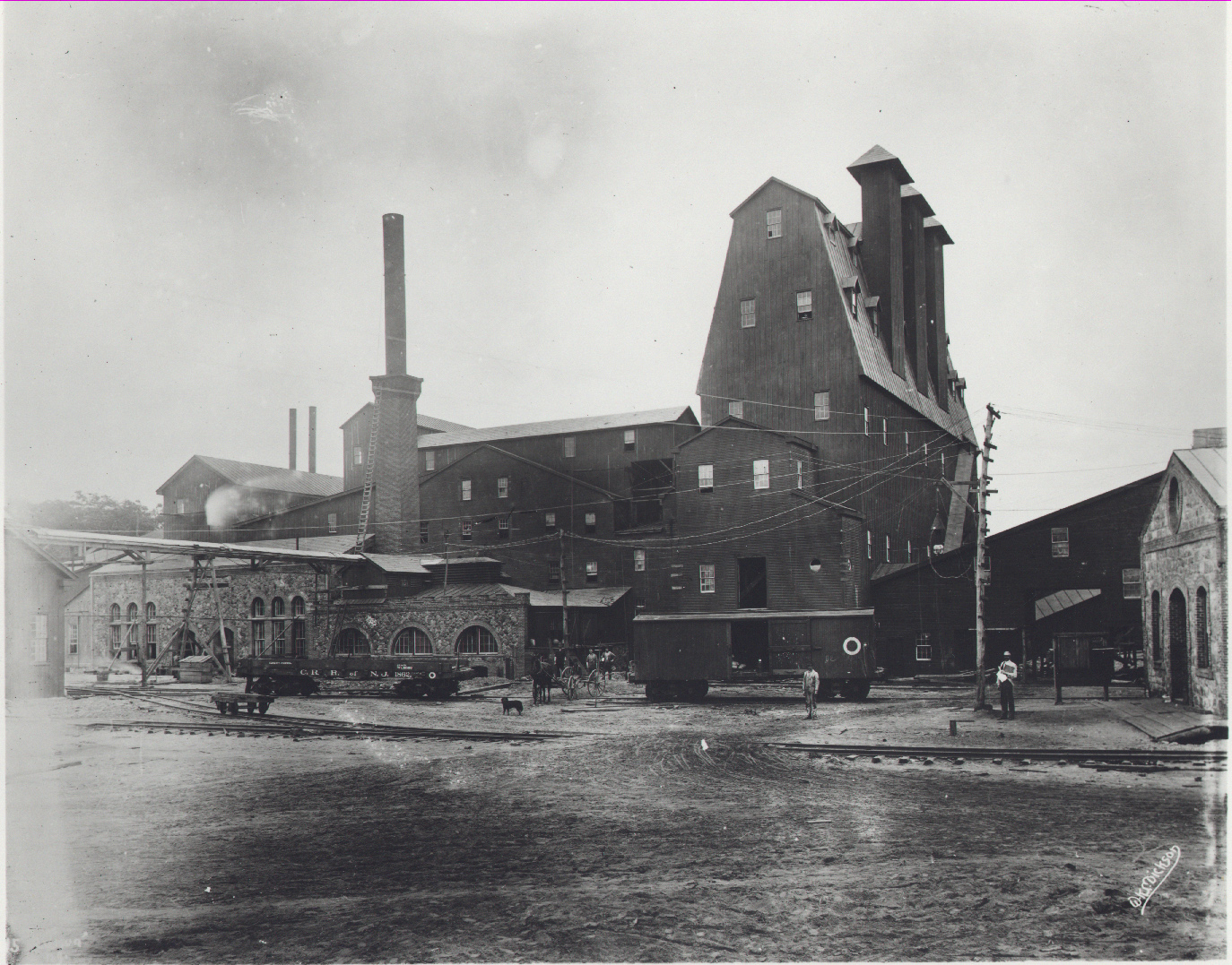 Tower containing magnetic ore separators at Ogden mine. Stone building is power house or boiler house. Corliss engine in frame building- extreme left, 1895.